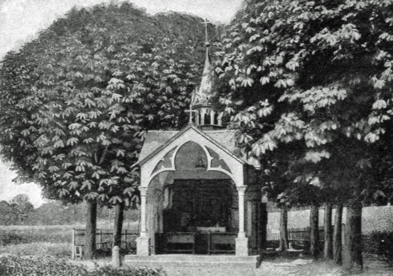 Chapel Maria Hilf in Koblenz